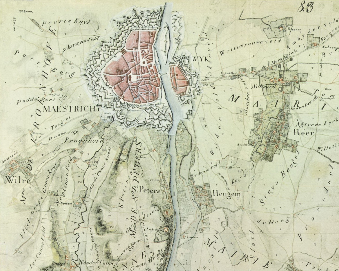 Detail of Tranchot map of 1803-1820 with the southwestern tip of the town of Maastricht and some villages in the County of Vroenhof.